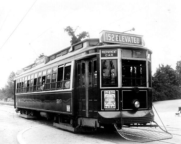 Original caption: "Type 4 #5217, a Laconia Car Co. product of 1911 in its original as-delivered mode. The large destination sign later was removed and a smaller destination sign installed over the front center window. These cars were later dubbed (low-sign) 4s, and the others made by Jewett and St. Louis Car Co. were called (High sign) 4s with the destination box at the end of the clerestory roof. The car is seen on Blue Hill Ave at Franklin Park en route to Dudley Street Terminal in 1911."